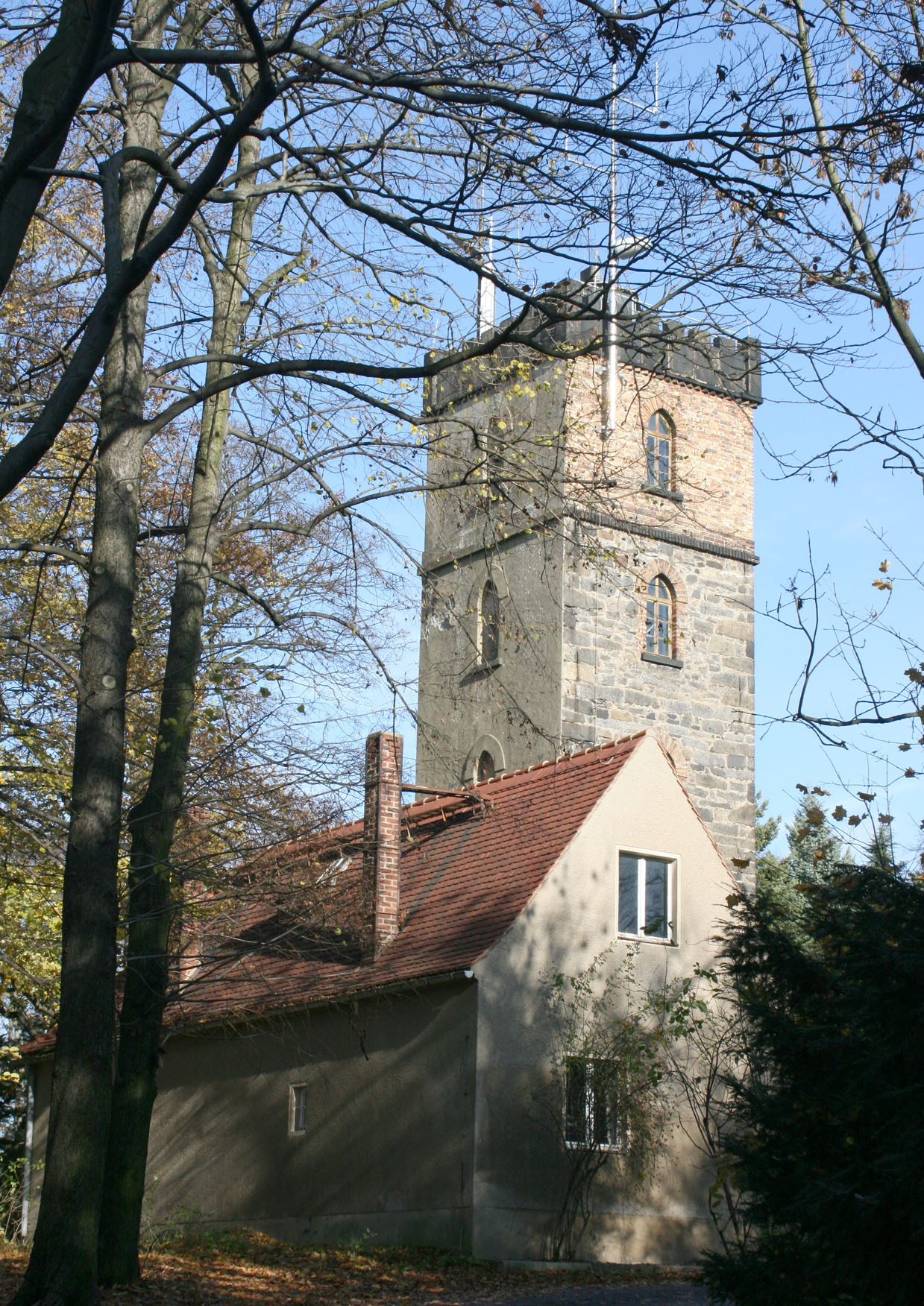 Kamenz (town in Saxony): Hutberg, tower (Lessingturm)